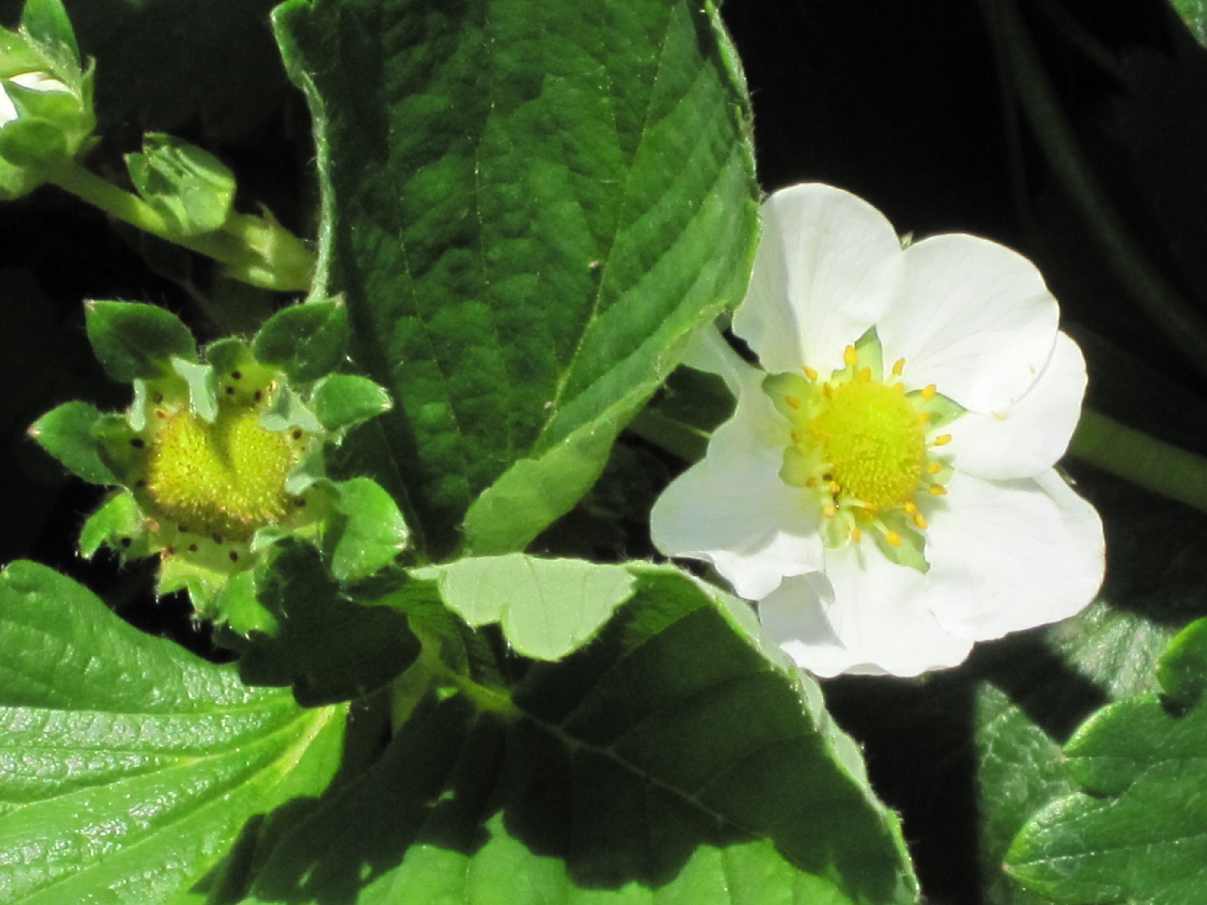 Strawberry flowers